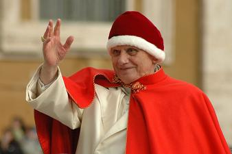 His Holyness Pope Benedict XVI wears the camauro during a wednesday general audience. Picture taken and released under CC Licence by Fotografia Felici , 28 dic 2005